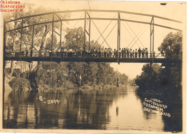 The lynching of Laura and Lawrence Nelson on 25 May 1911 in Okemah, Oklahoma.